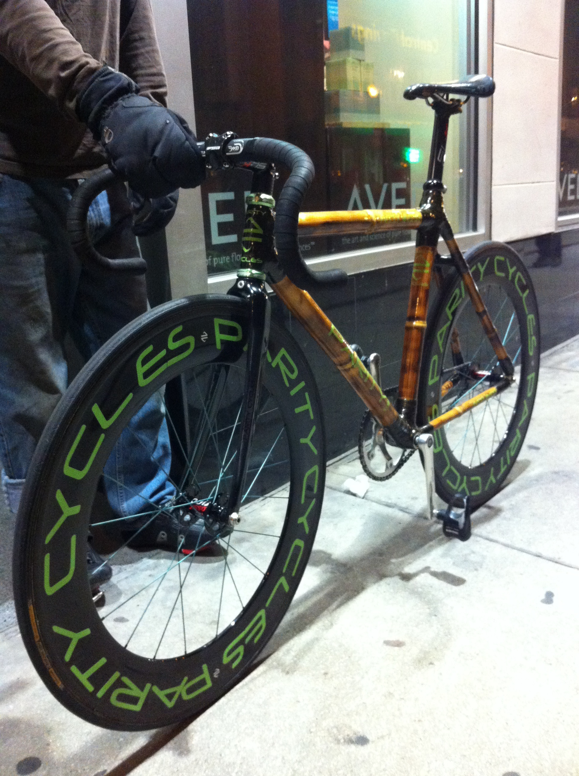 Bamboo bicycle in Chicago - Parity Cycles - manufacturer